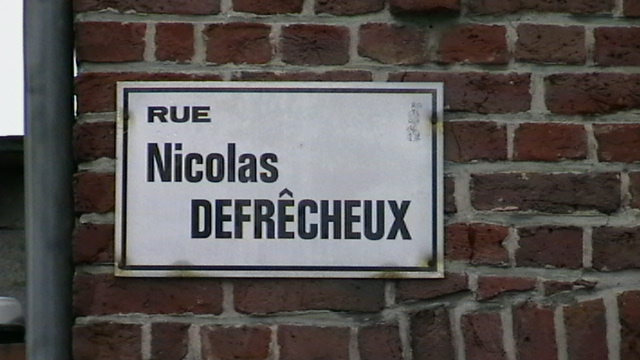 Street sign at Herstal, the pen name of a writer in Walloon Walon: Rowe Nicolas Defrecheux a Hesta